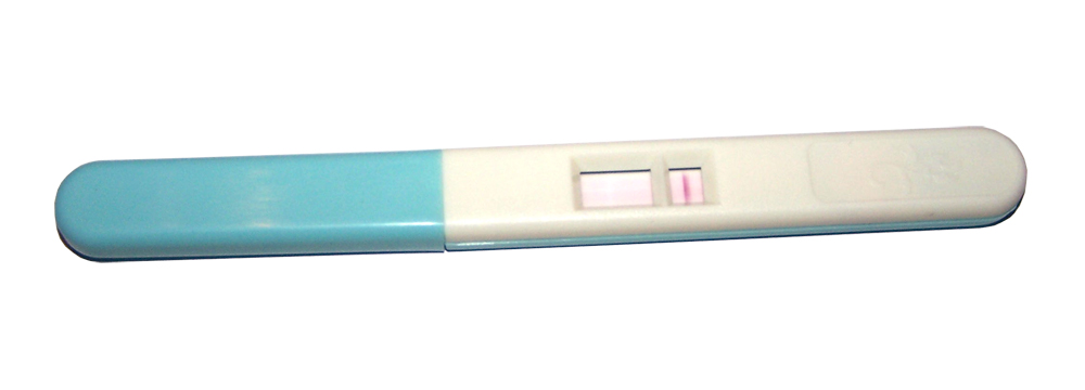 Pregnancy test